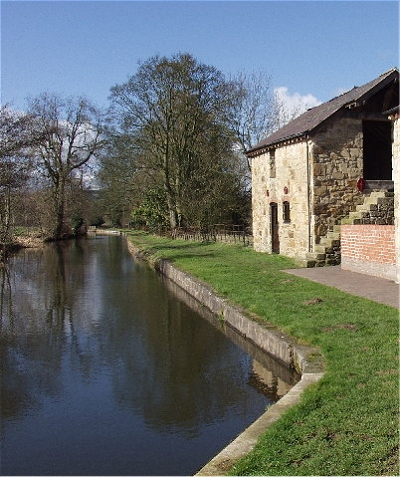 Original photograph taken by John Haynes, May 2006, of the Llangollen Canal at St. Martins Moor)